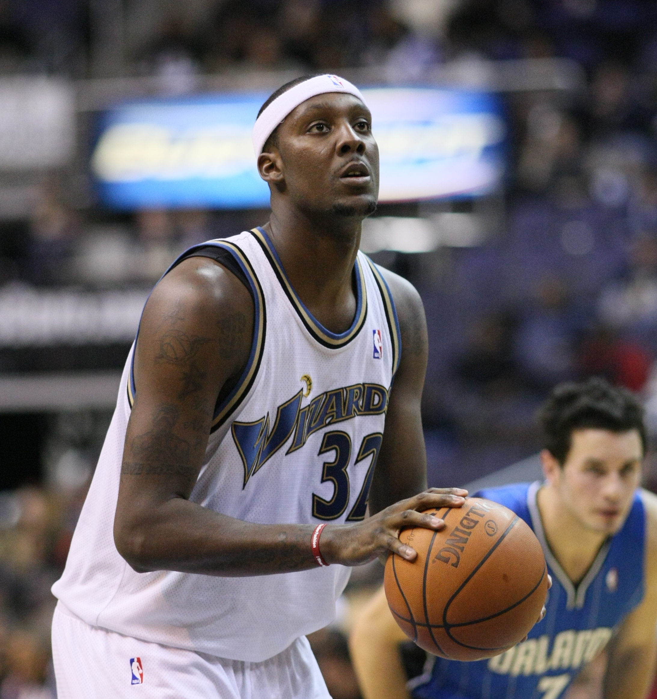 Andray Blatche at the Washington Wizards v/s Orlando Magic game on 11/27/08